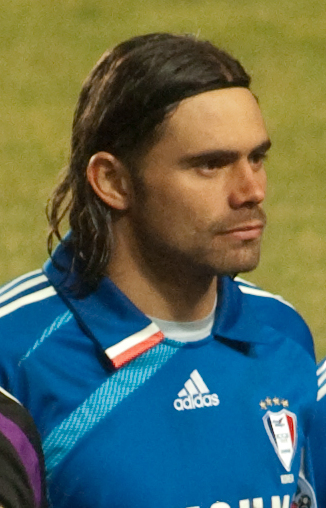 AFC Champions League 2009 Squad of Suwon Samsung Bluewings at 11 Mar 2009 against Kashima Antlers of J-League.